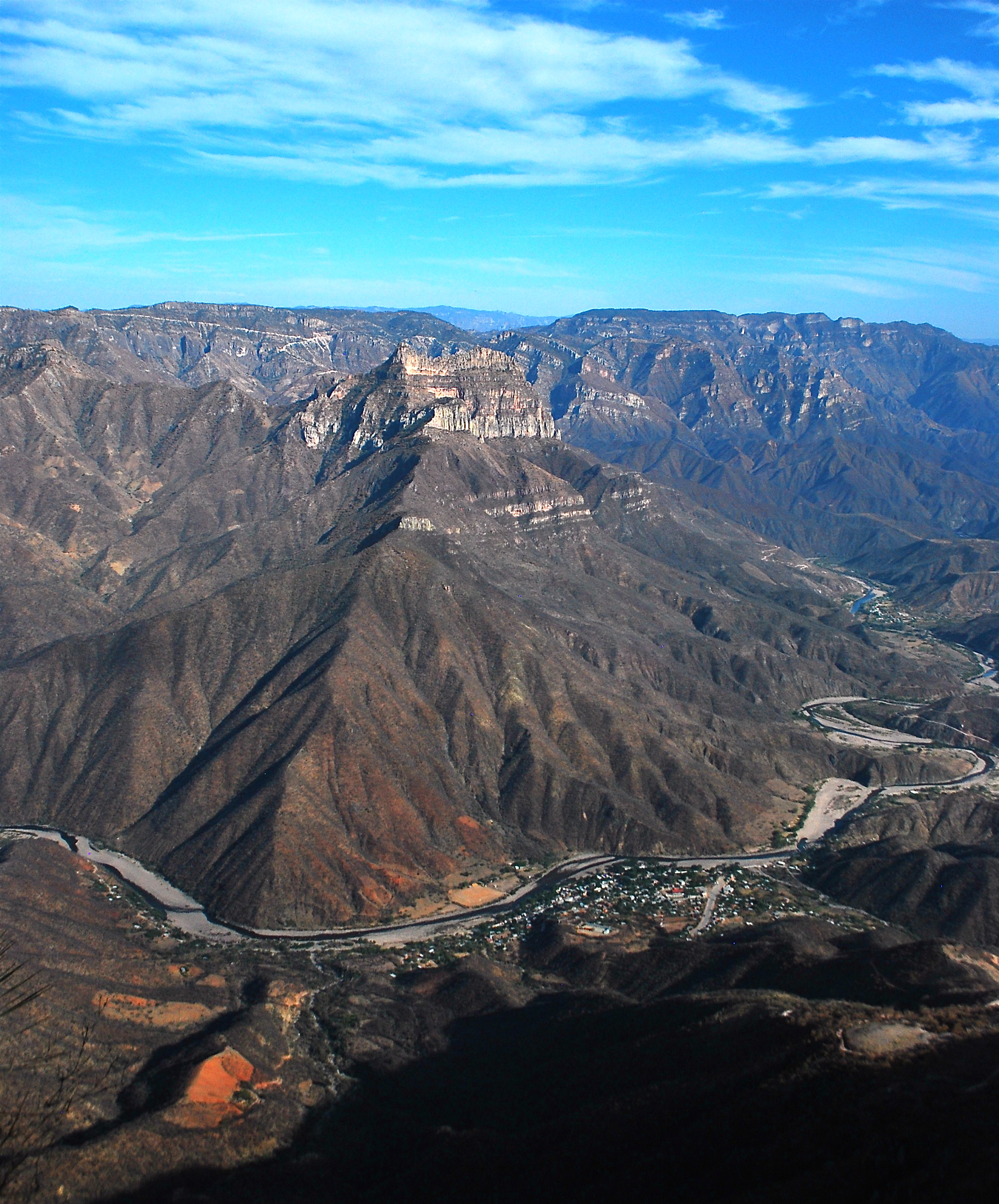 View of Urique Town from Gallego Canyon